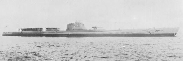 Japanese Submarine I-7 (JUNSEN-class, type III).